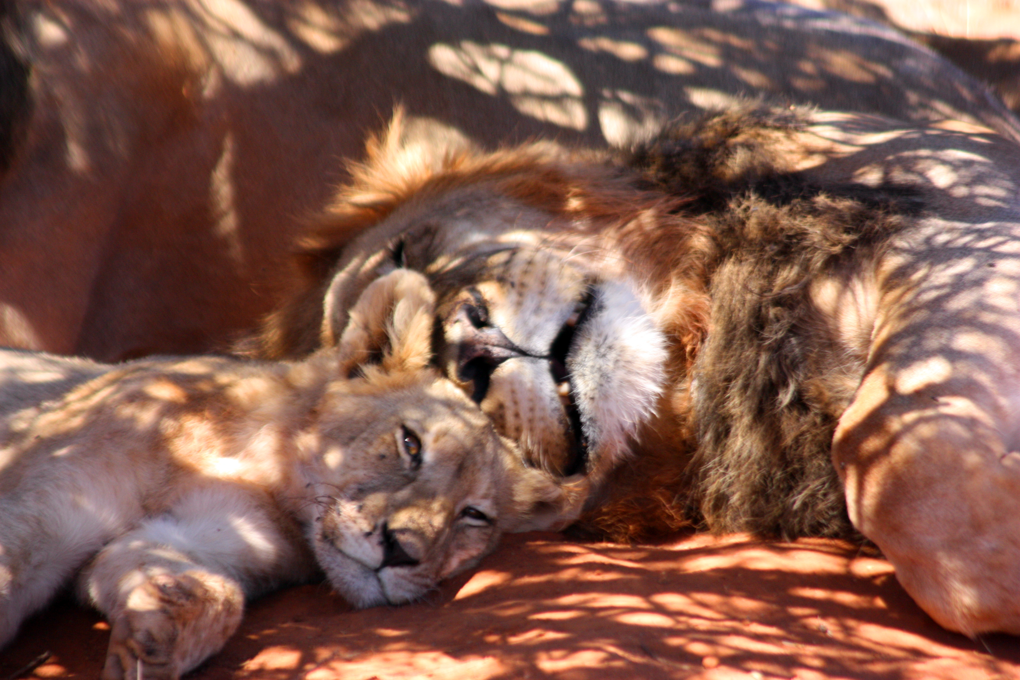 Black-maned Kalahari lion and one-year-old cub in the Kalahari desert, South Africa 4 of 4